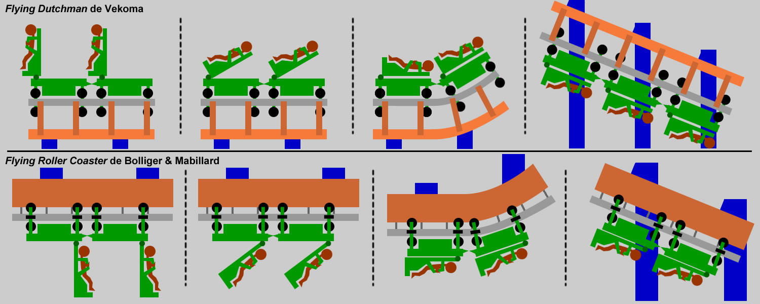 Comparison of loading process of the Flying Dutchman by Vekoma and the Flying Roller Coaster by B&M. Drawing created by myself, Sam-Pig.